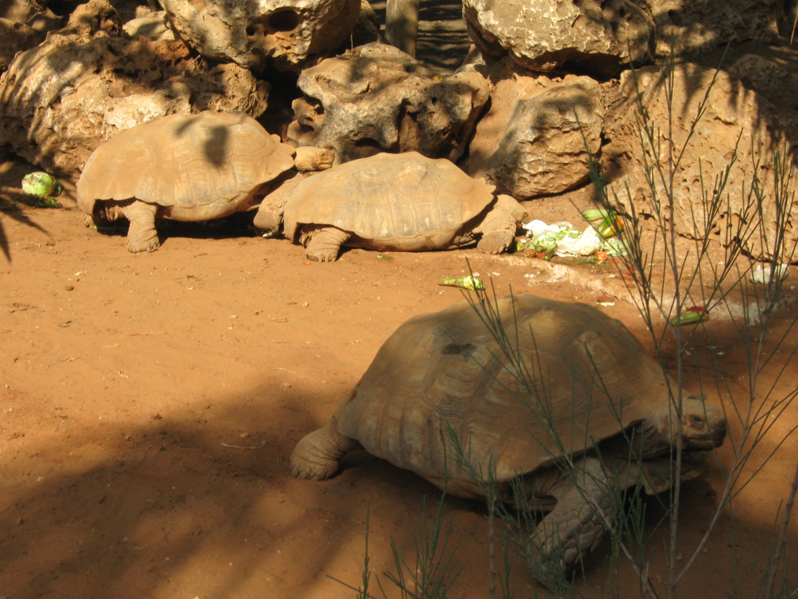 Wildlife and Plants of Israel